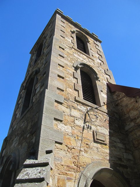 St Stephen's Presbyterian Church, Jamberoo: St. Stephen's Presbyterian Church